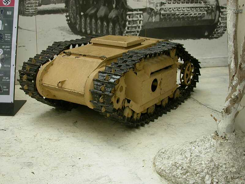 Light Demolition Vehicle Goliath, Sd.Kfz. 303, at Tank Museum Bovington (UK)